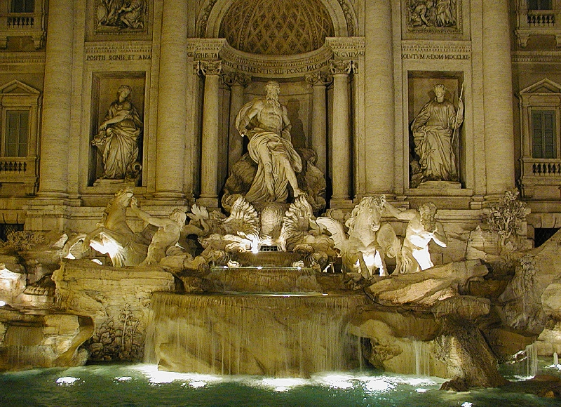 Trevi fountain in Rome